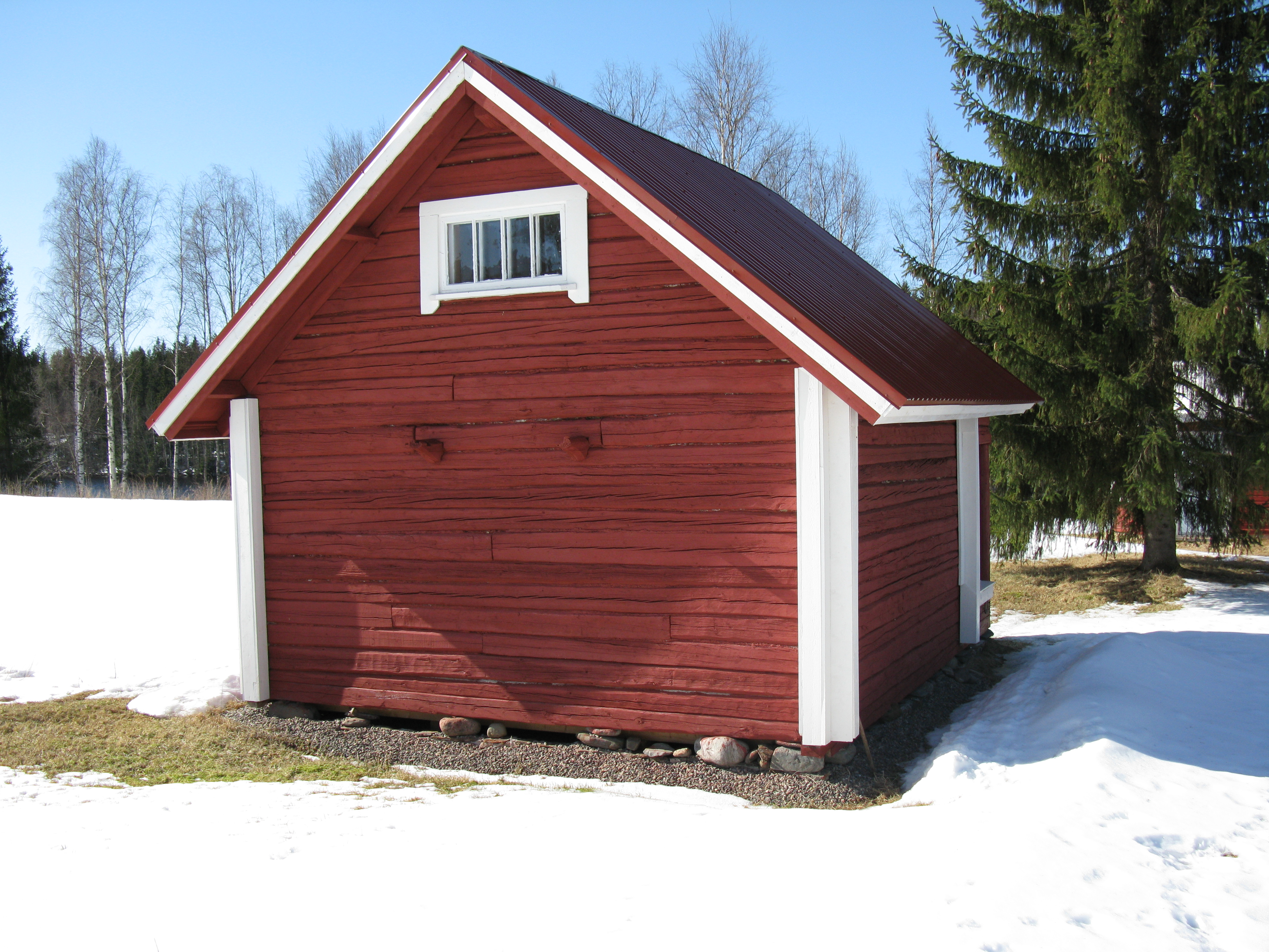 Old Finnish granary renoved in Utajärvi, Finland.